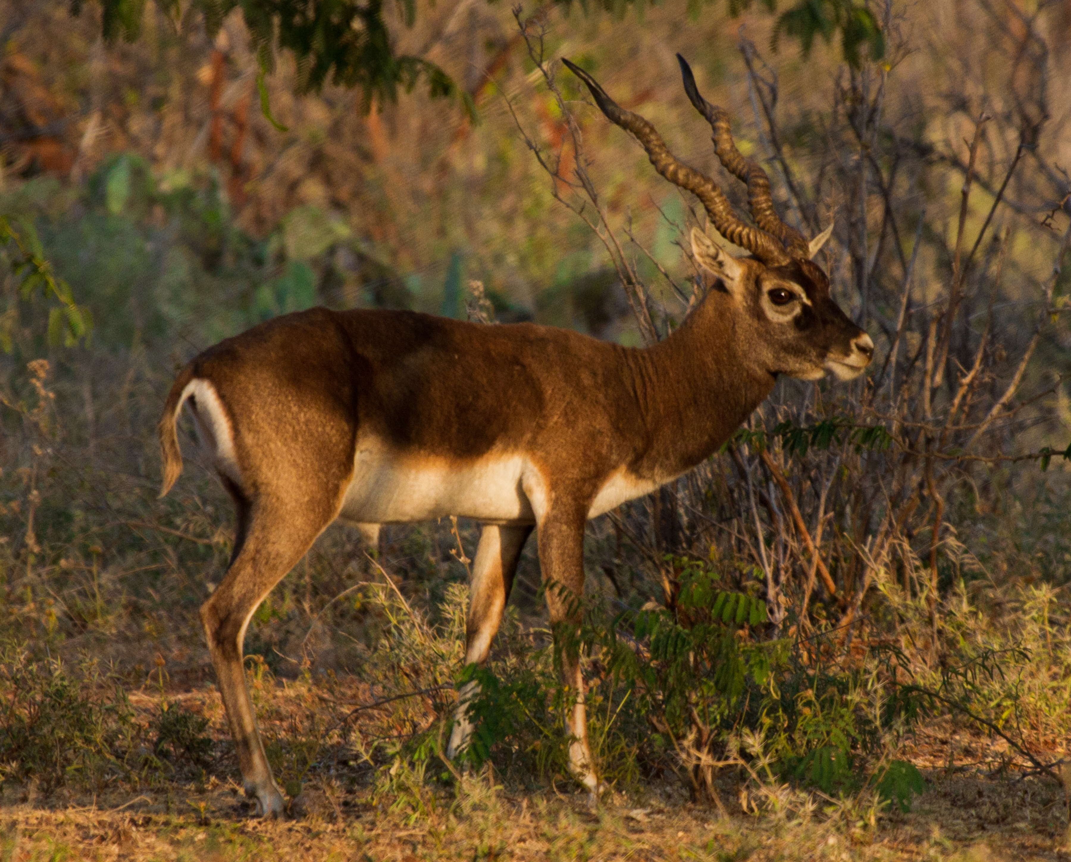 blackbuck (Antilope cervicapra)